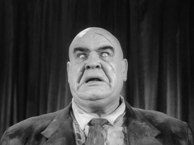 Film: Plan 9 from Outer Space (1959) Director: Ed Wood, Jr. Actor Portrayed: Tor Johnson The original 1959 version of this film is public domain, although there may be a copyright on the musical score